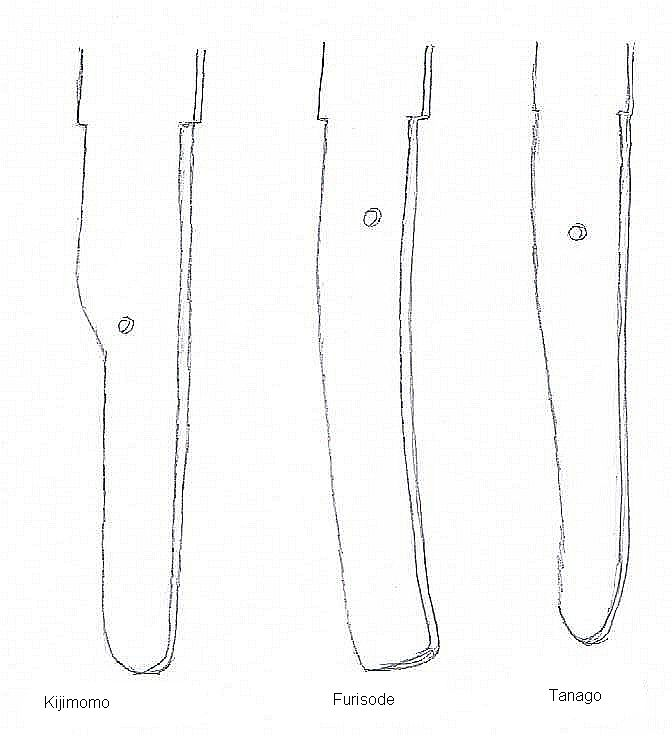 Styles of the japanese sword-tang (Nakago) 1